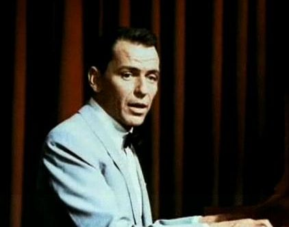 Screenshot of Frank Sinatra from the trailer for the film Pal Joey, 1957